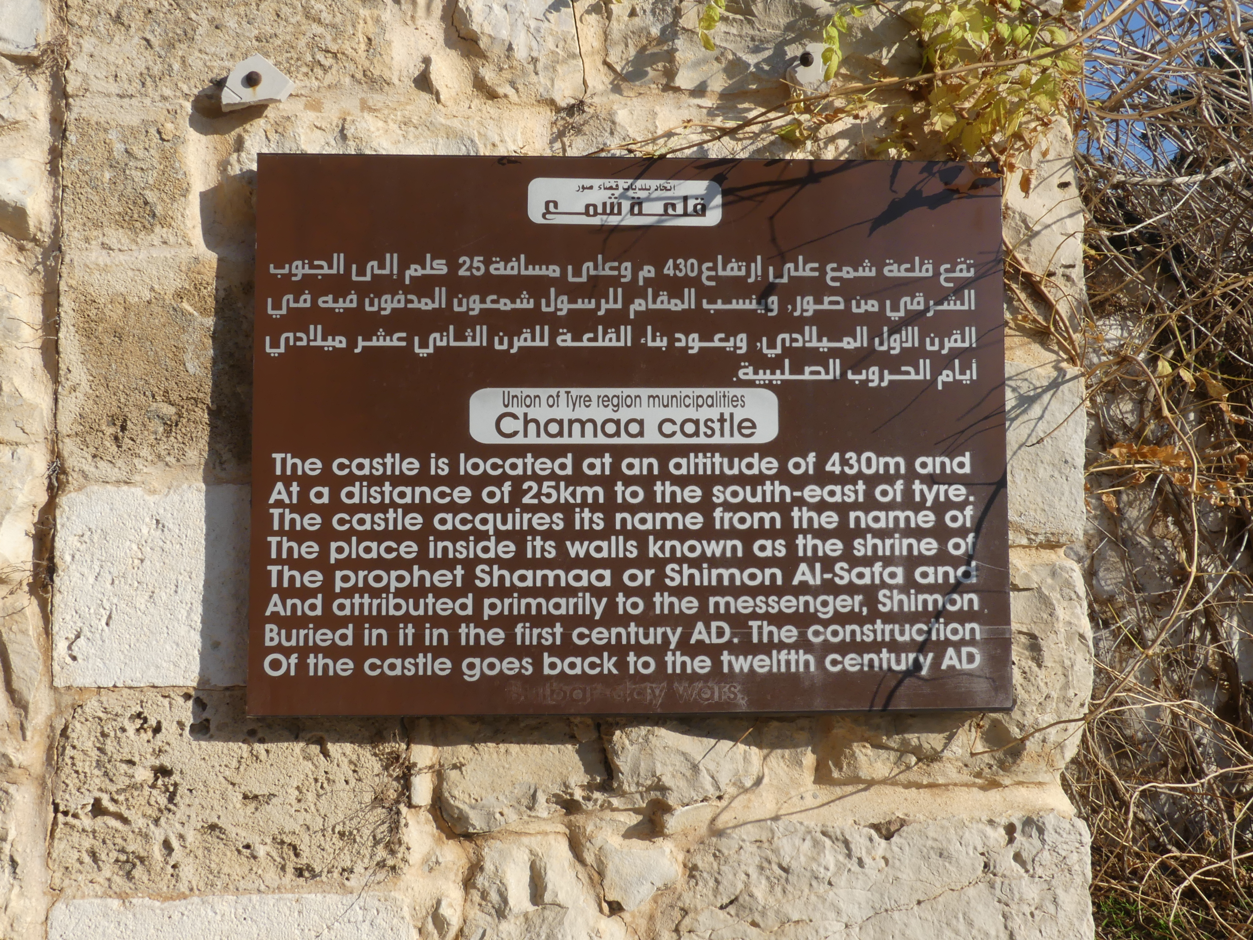 Info sign at the entrance to the castle and the shrine on the main hill of the Southern Lebanese village of Chamaa (also spelled Chama'a, Chama, or Shama). The shrine is attributed by local tradition to the prophet Shamoun or Shimon al-Safa, who is said to be Saint Simon the Zealot, Simon Peter, or Simon the Cananite, one of the 12 apostles of Jesus. According to this Shia belief, he was also an ancestor to the 12th and last Shia Imam Mahdi. The castle was built in 1116 by the Frankish Crusaders over the remains of Roman-Byzantine buildings and restored in the 18th century by the Shiite dynasty of Ali al-Saghir, but partly destroyed by Israeli attacks in the 2006 war against Hezbollah.